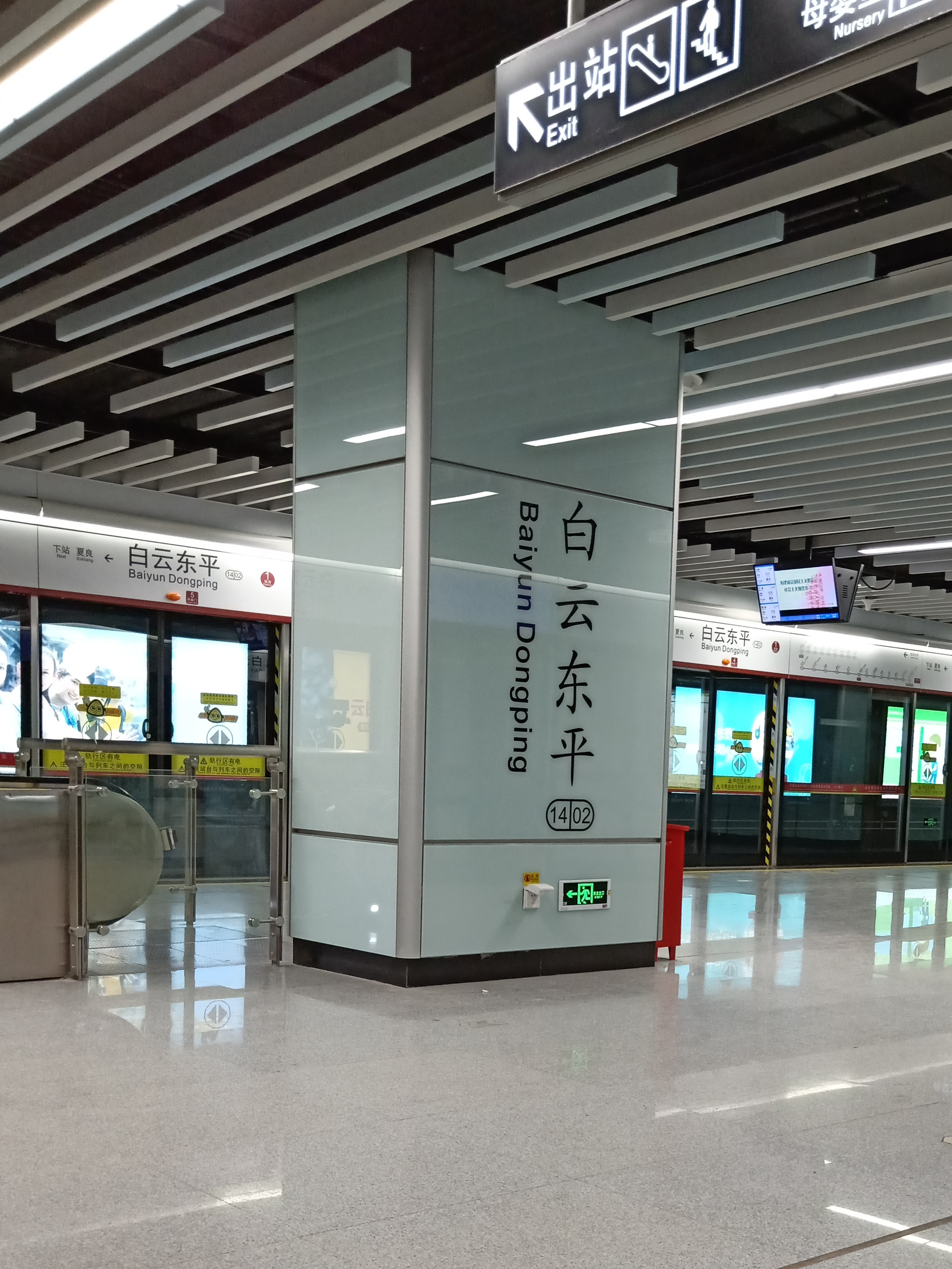 WORD on PILLAR for Baiyun Dongping Station, Guangzhou Metro.